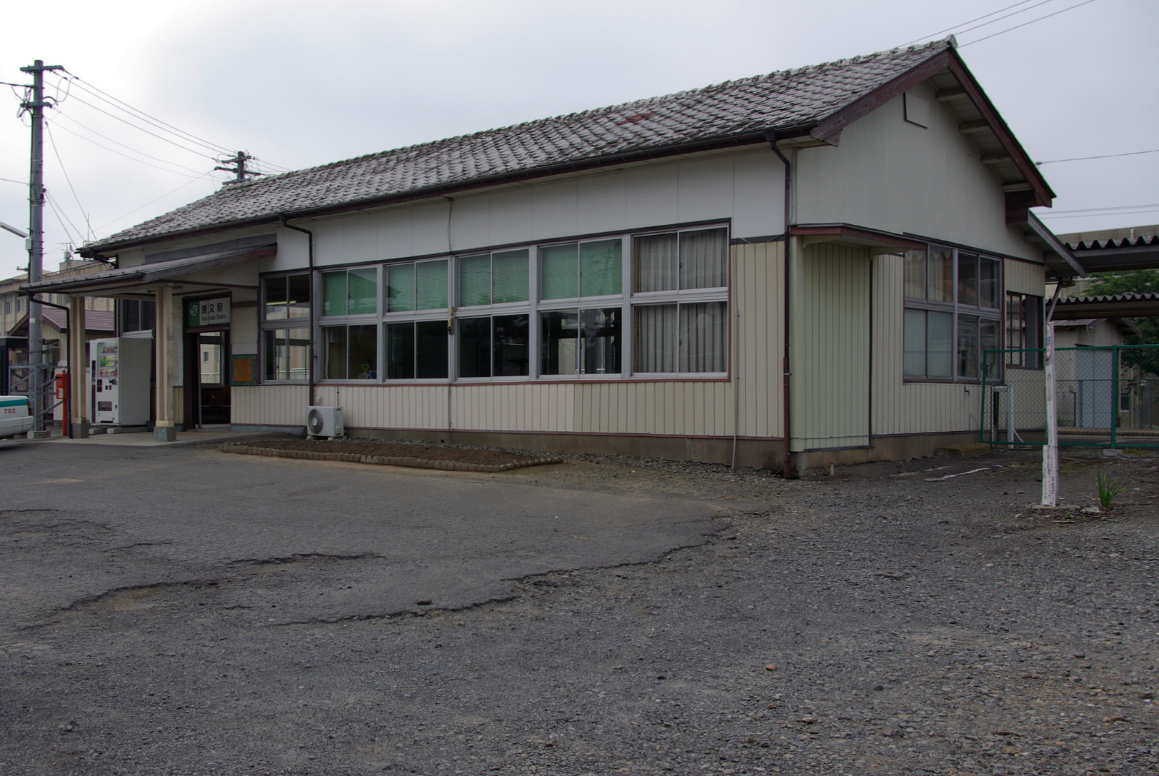 Kanomata Station on Ishinomaki Line